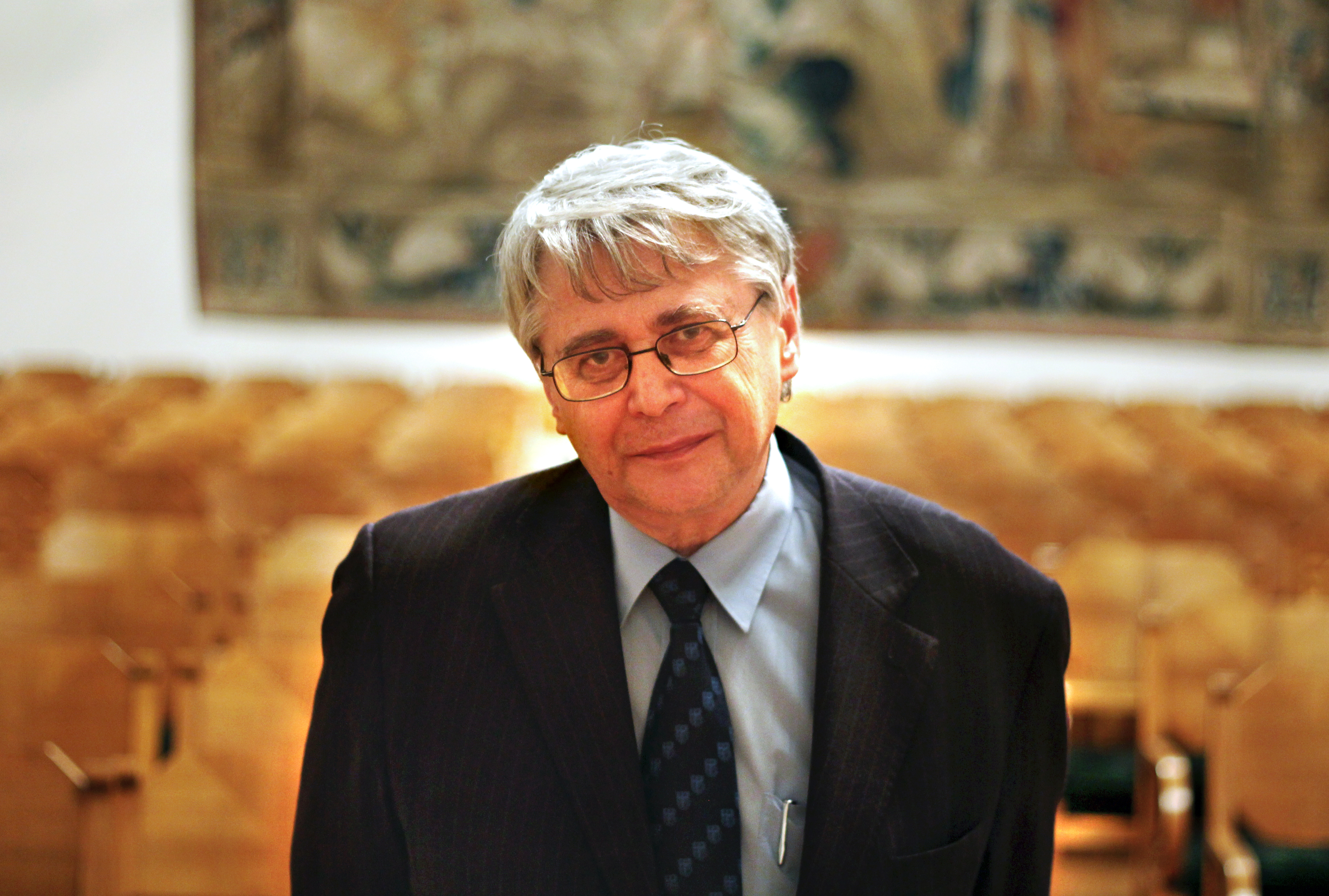 Polish art historian and economist Jacek Purchla after giving a lecture at the seat of the Polish Academy of Arts and Sciences in Cracow at 17 Sławkowska Street.